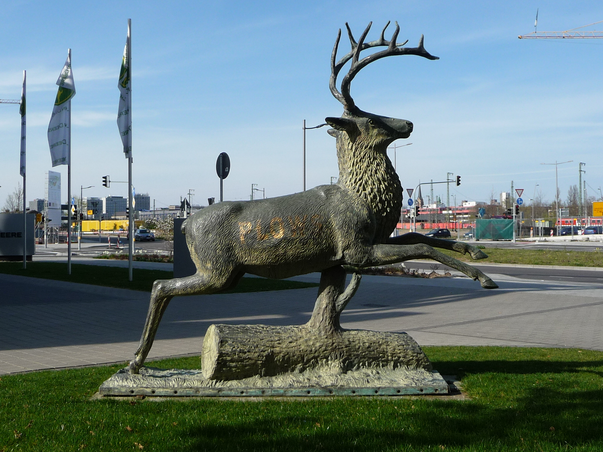 John Deere (Mannheim)